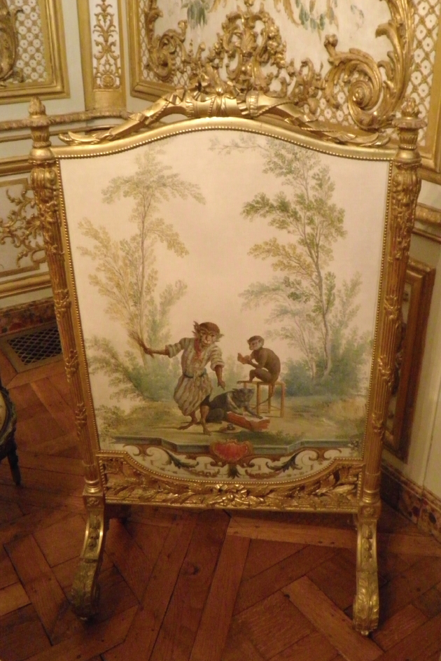 Hearth Screen, Monkey Room, Grands appartements, Chateau de Chantilly, France.